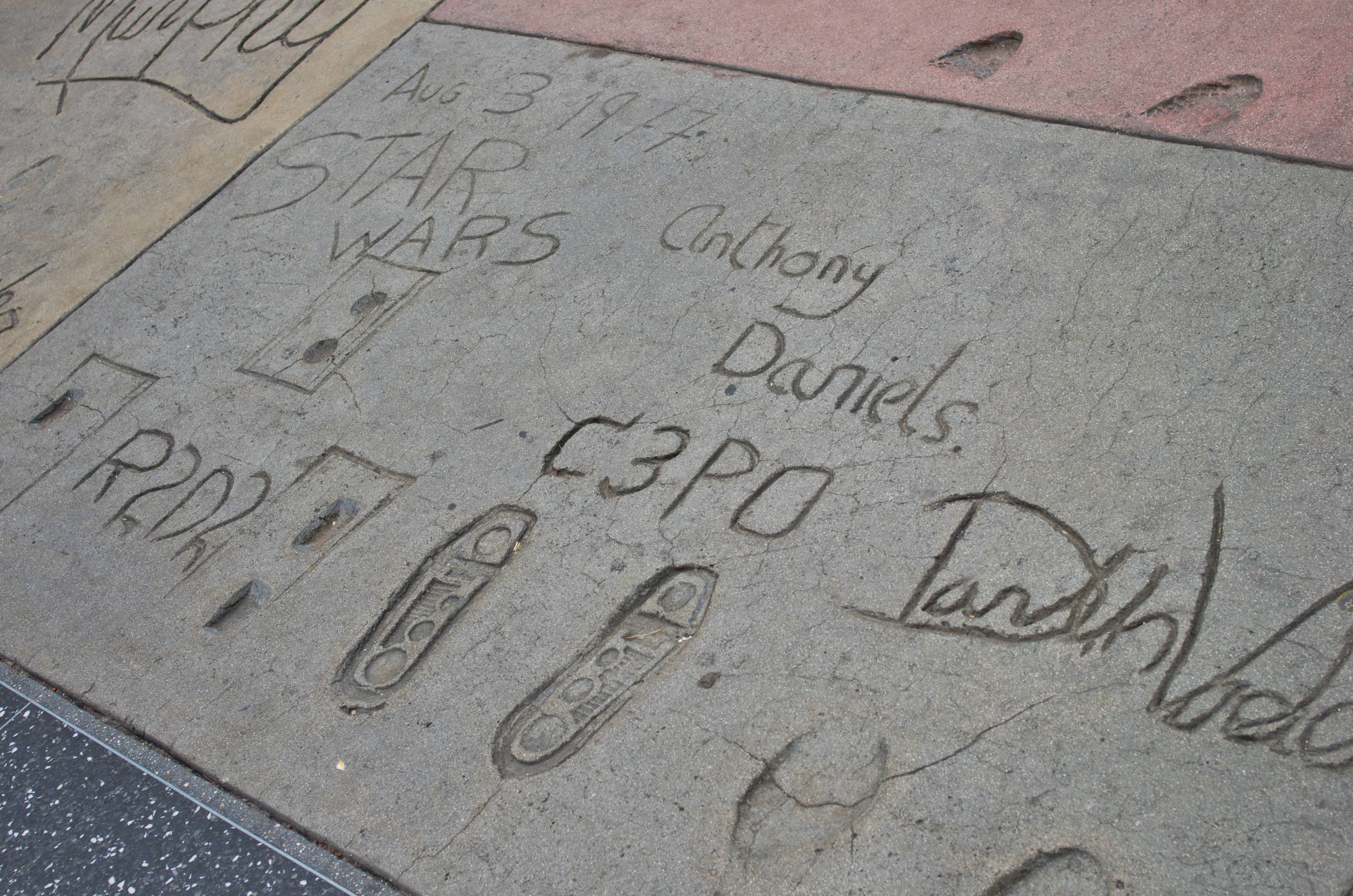 Star Wars in Grauman's Chinese Theatre